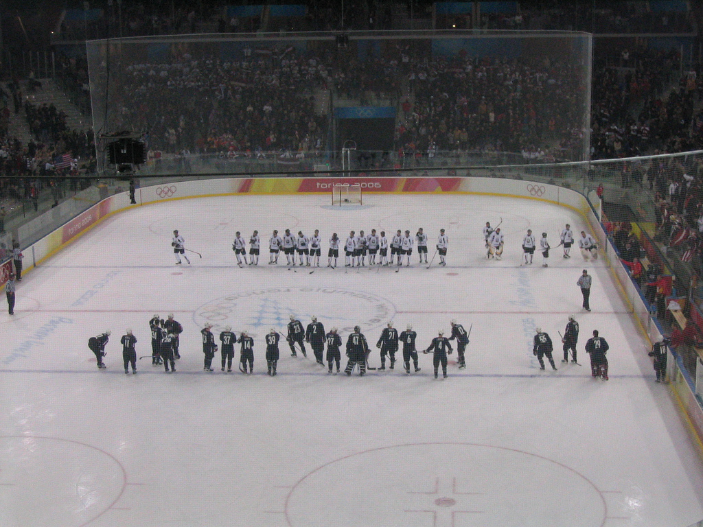 Ice hockey match USA vs.Latvia, Winter Olympics 2006